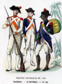 Two fusiliers of the Régiment de Pondichéry and Régiment de Martinique, and a drummer of the Régiment du Cap in 1789.